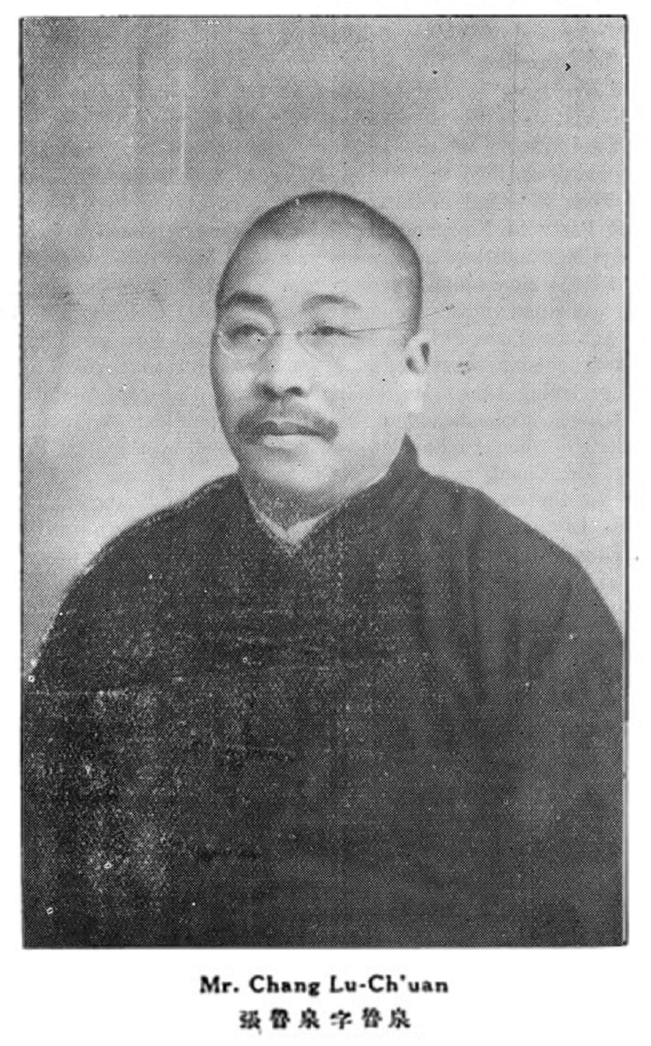 Zhang Luquan (1880-？)